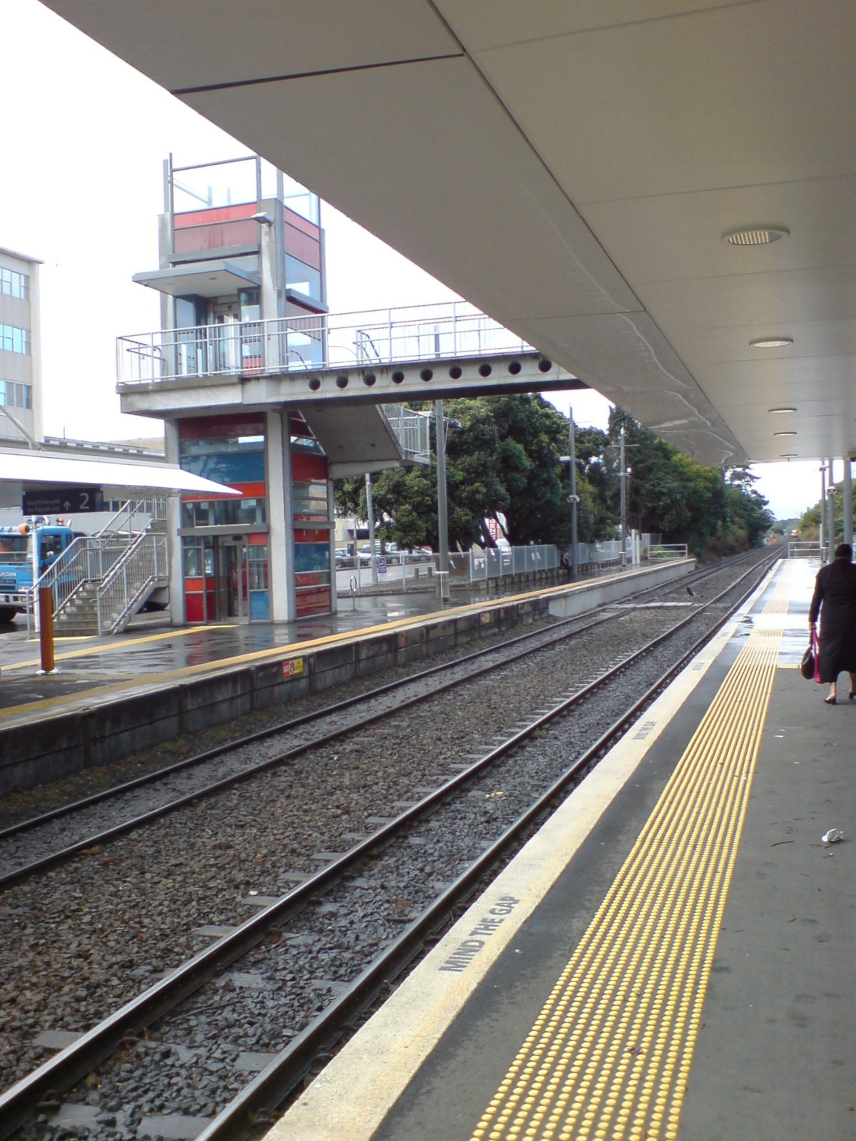 Looking southeast from the Middlemore Train Station in Auckland, New Zealand. A part of Middlemore Hospital is visible to the left.